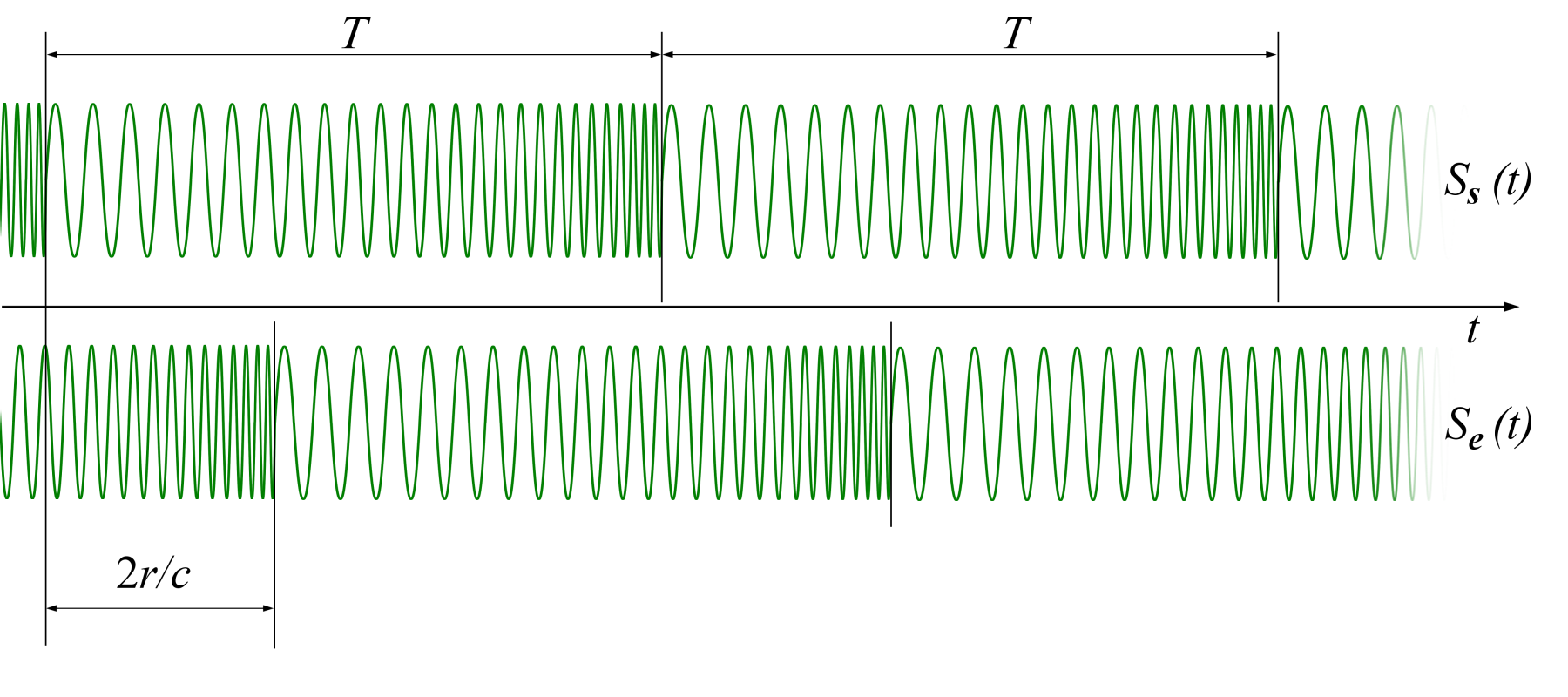 Time response of the transmission signal Ss(t) and delayed by the runtime 2r/c received signal Se(t)